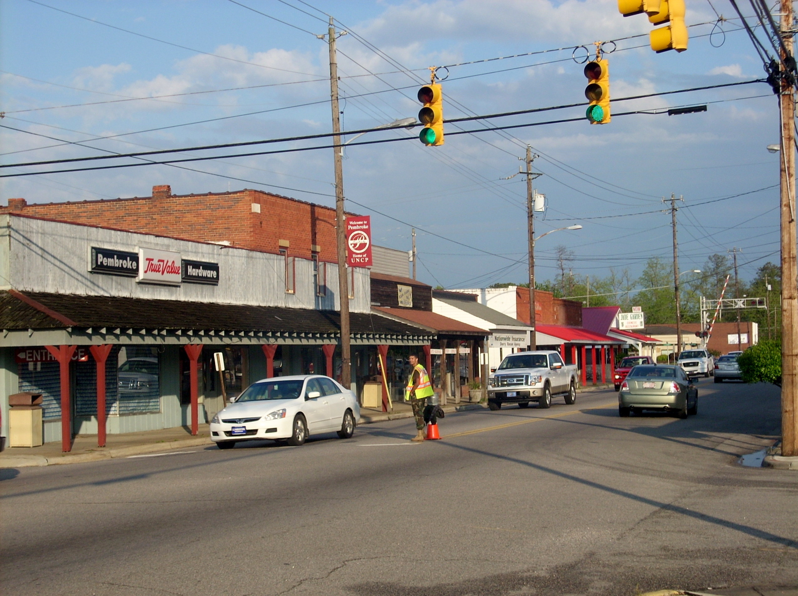 Pembroke, NC. The home of the University of North Carolina at Pembroke and the Lumbee Indian Tribe. Most of the residents are Lumbee.